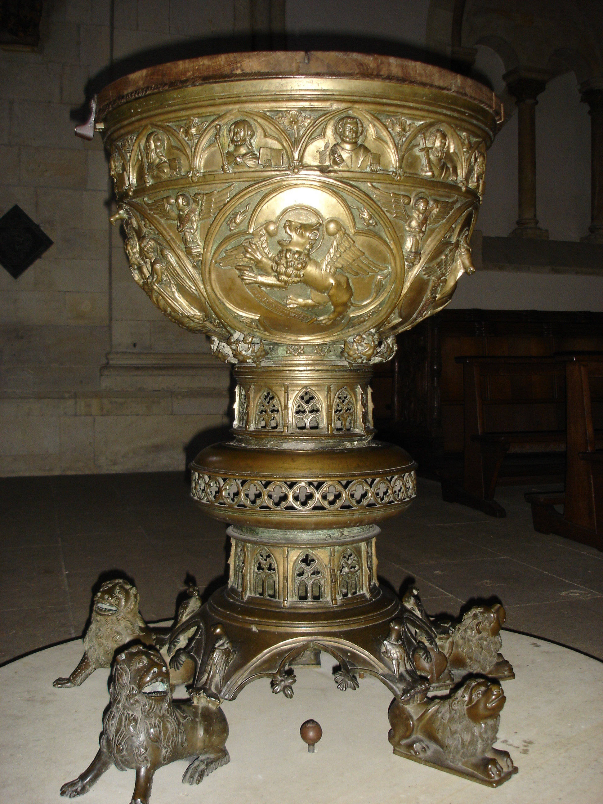 Baptismal font of St. Pauls Cathedral in Münster, Westphalia, Germany